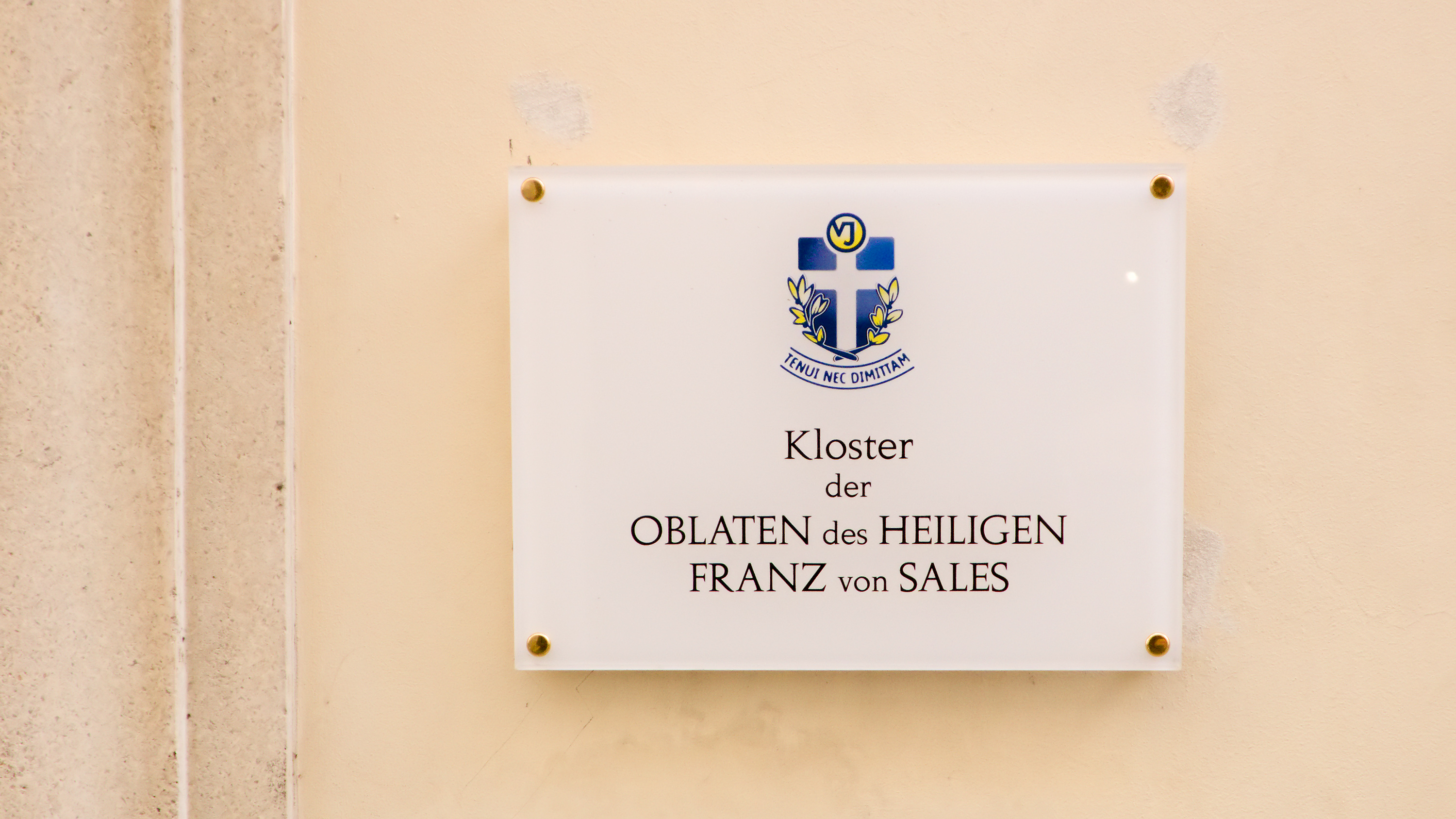 Annagasse in Vienna Inner City, Haus Nr.3b Sankt Anna(Wien)